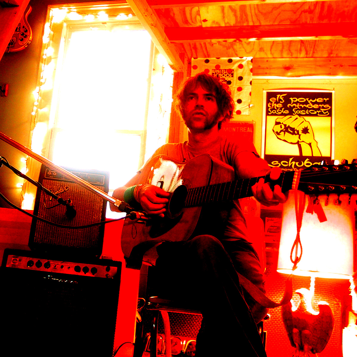 the late b.p. helium circa 2006. photo by bryan poole. Category:Of Montreal Summary the late b.p. helium circa 2006. photo by bryan poole.